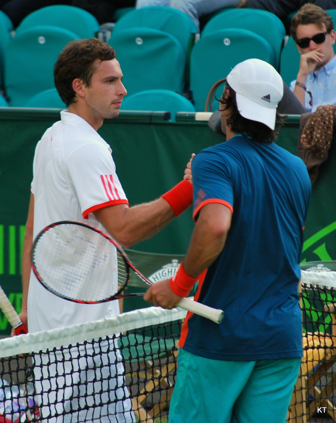 The Boodles, Stoke Park 2012.